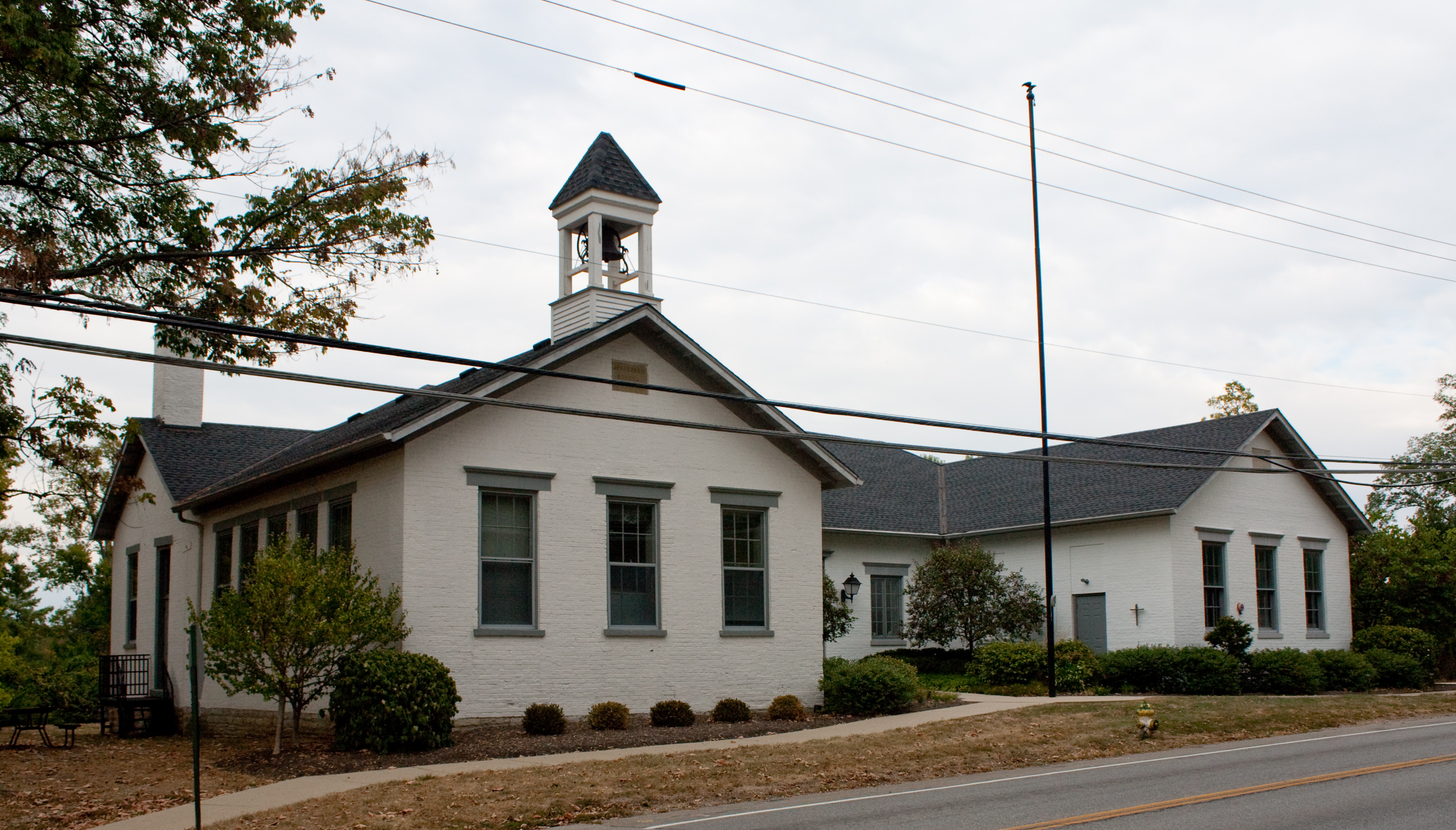 Jefferson Schoolhouse in Indian Hill Photo by Greg Hume.